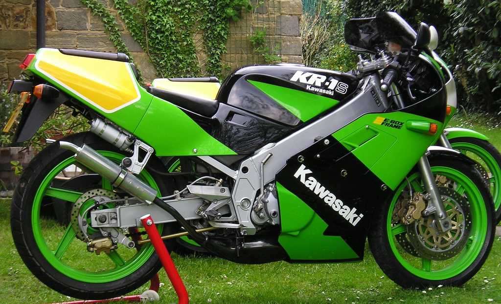 Kawasaki KR-1S - Black and Green version of the two stroke 250cc motorbike produced in 1989